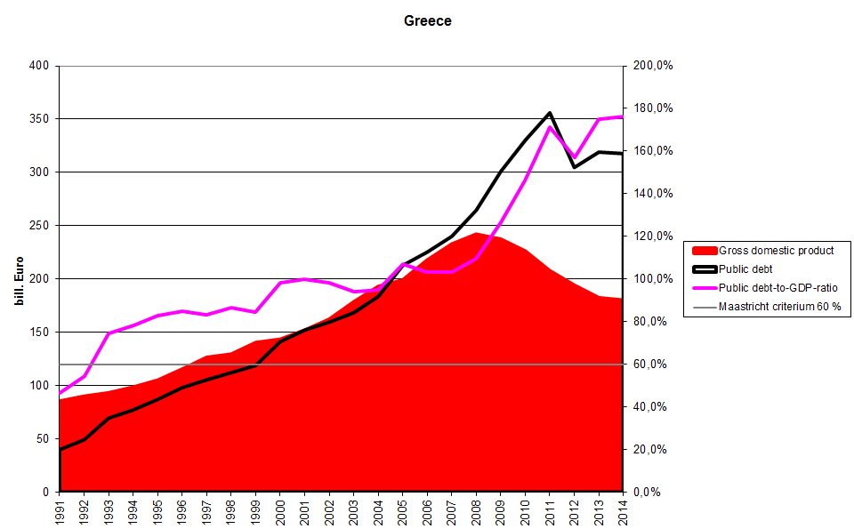 Greece: GDP, gross public debt in bill. Euro and in relation to GDP in %